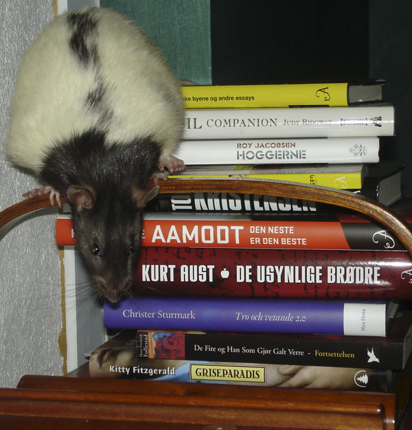 New Guinean rat (Rattus novaeguineae) on pile of books in Norwegian.